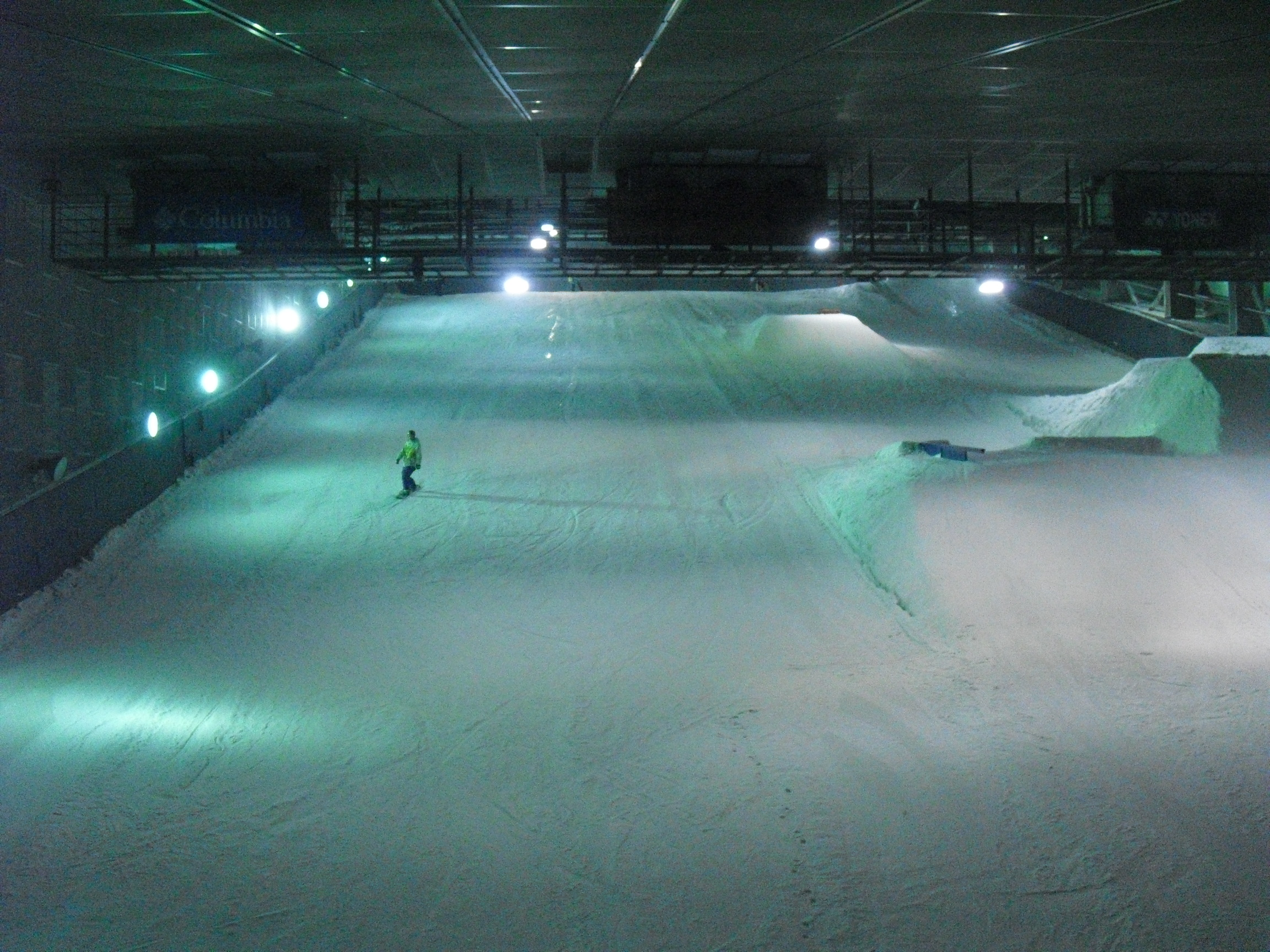 Across Shigenobu